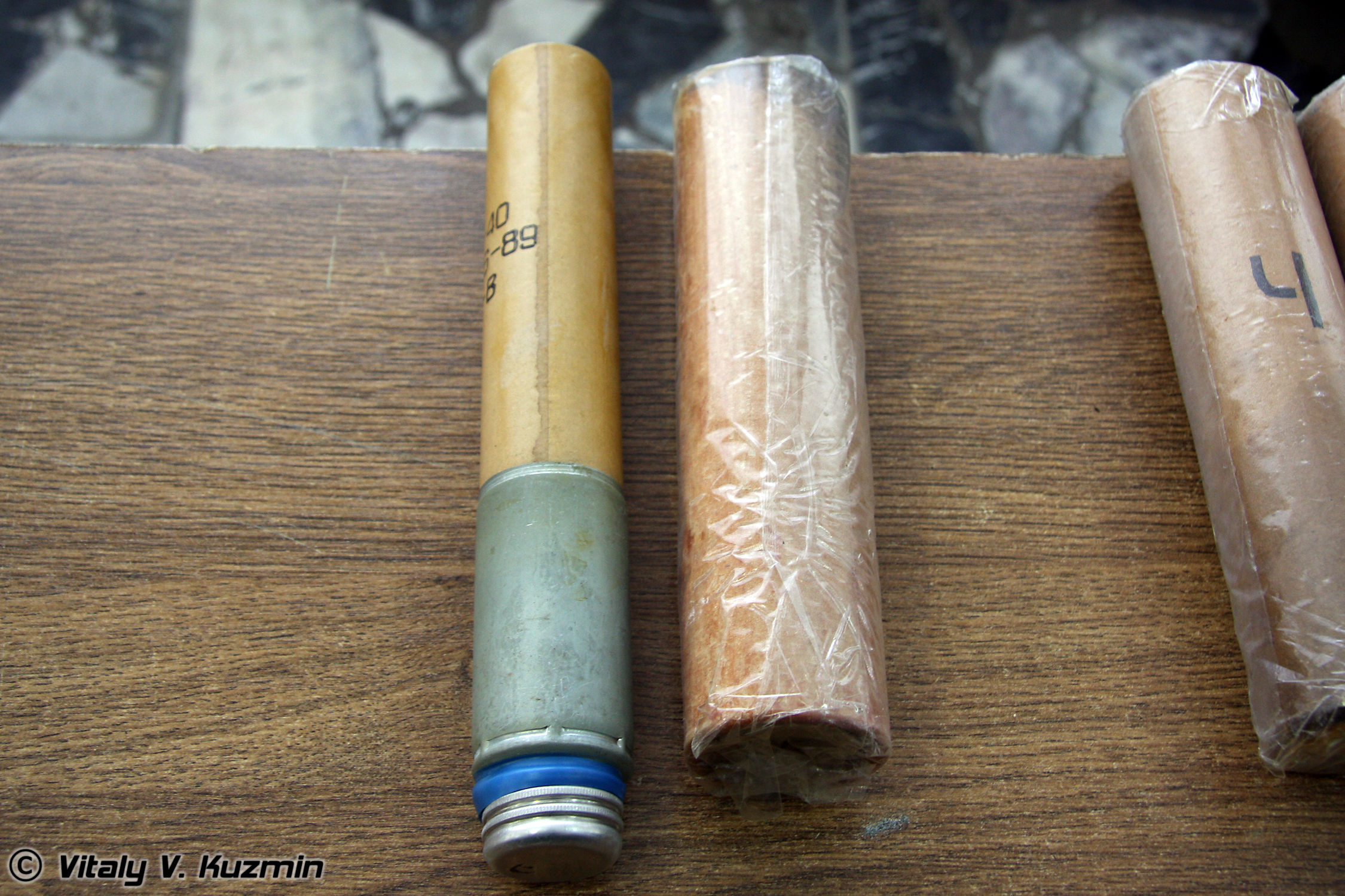 RGD-2